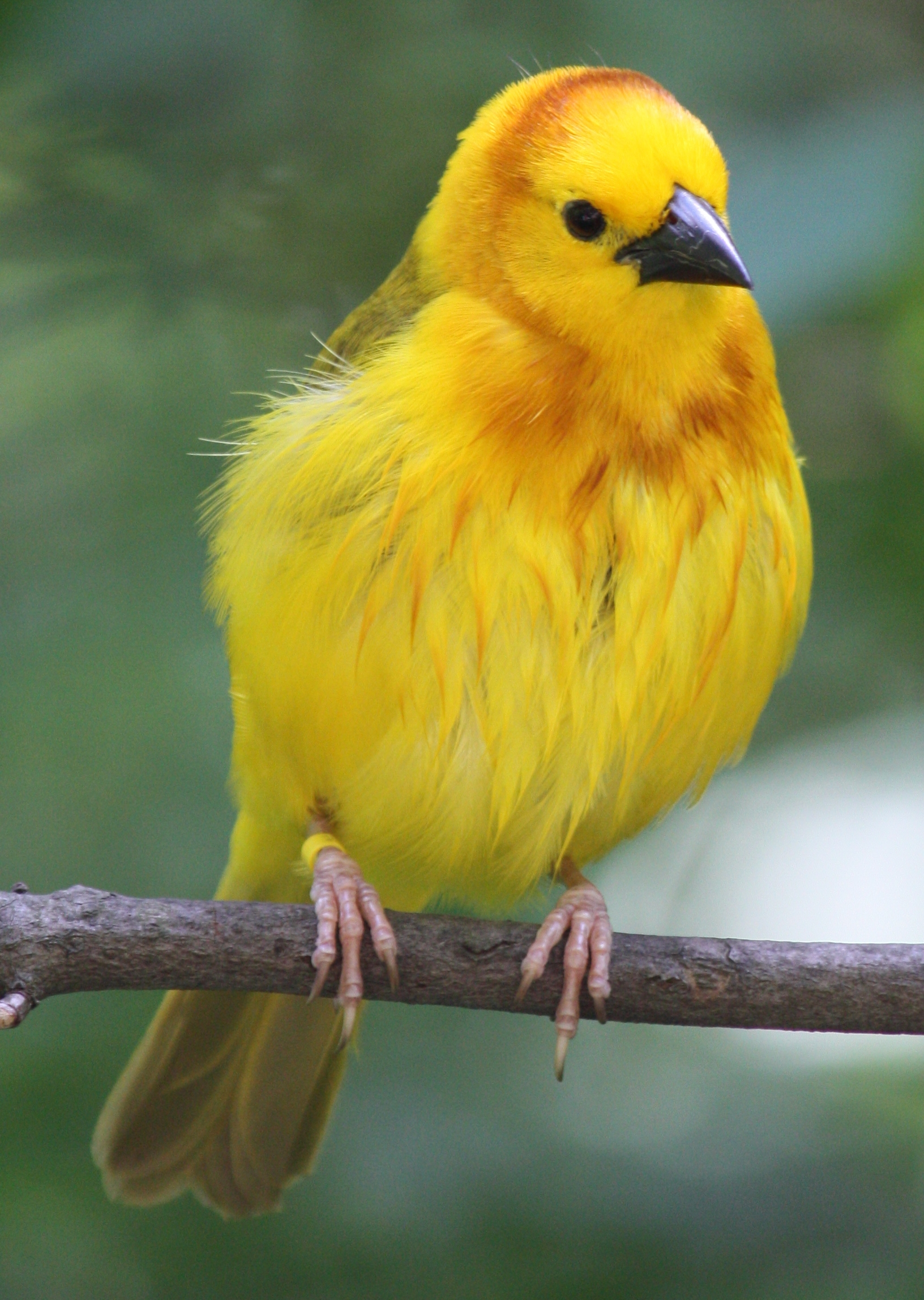 Taveta Golden Weaver Ploceus castaneiceps at Binder Park Zoo in Battle Creek, Michigan